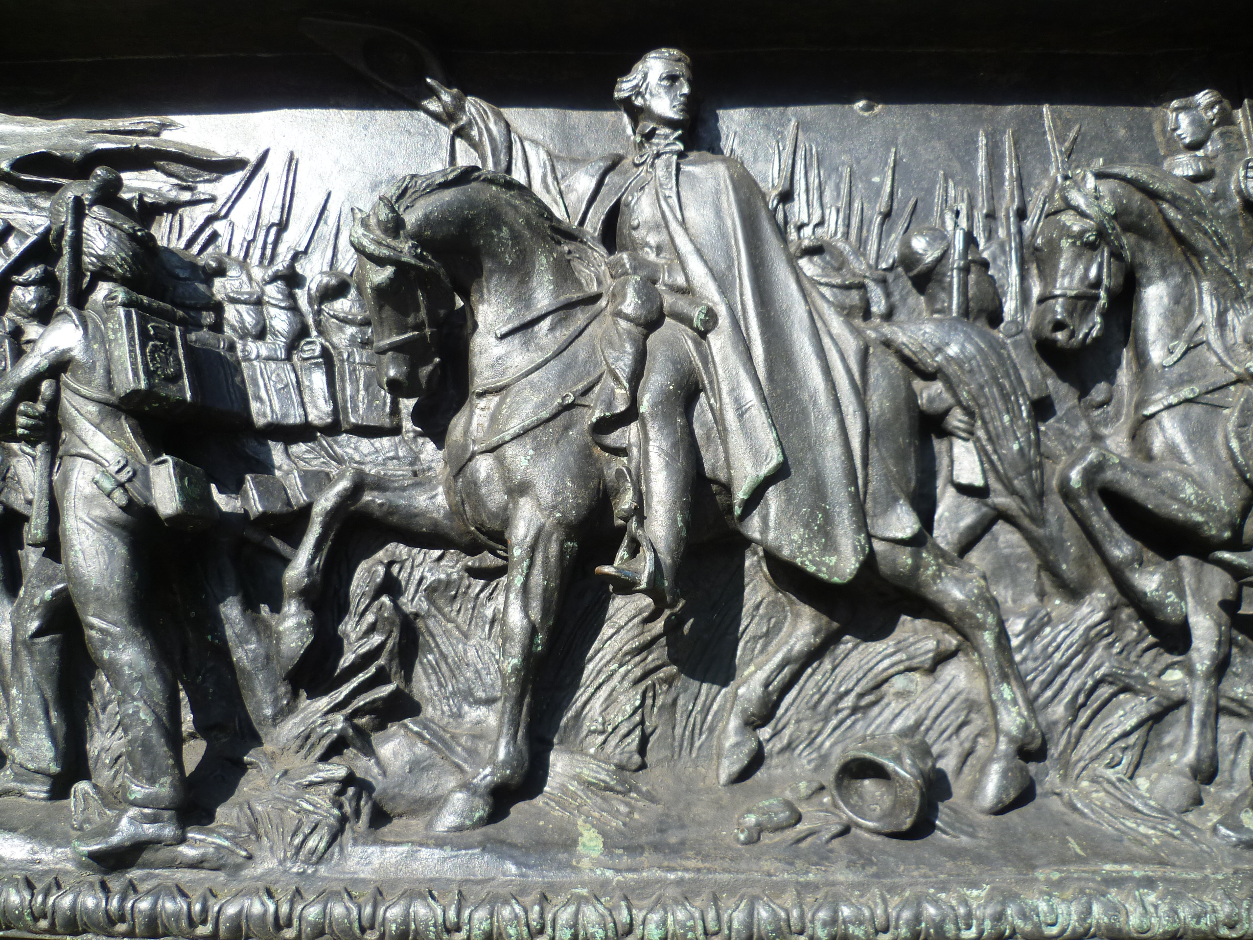 Bronze relief panel detail from the Duke of Wellington statue, Glasgow. The sculptor was Pietro Carlo Giovanni Marochetti, born in Turin in 1805, but raised in Paris where he became a French citizen in 1814. After settling in London he won numerous commissions for public monuments throughout Britain, including four bronze statues in Glasgow: the equestrian Duke of Wellington in Royal Exchange Square (1840-4) and the equestrian statues of Queen Victoria (1854) and Prince Albert (1866), also James Oswald (1856), all three in George Square.